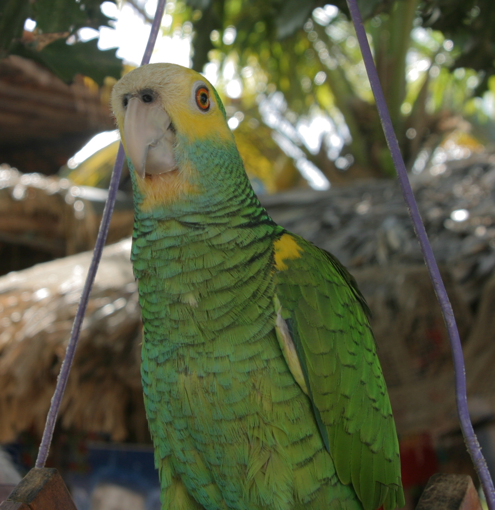 Yellow-shouldered Amazon (Amazona barbadensis) also known as Yellow-shouldered Parrot. Pet in Venezuela on the top of a wooden climbing frame. Mainly showing its upper body.